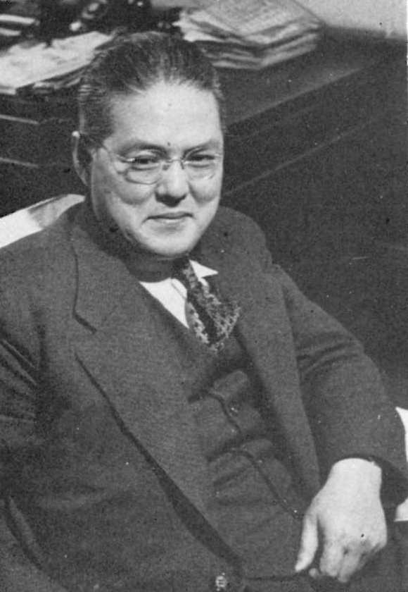 Shintaro Ryu